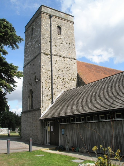 The church tower at St Andrew, Hamble